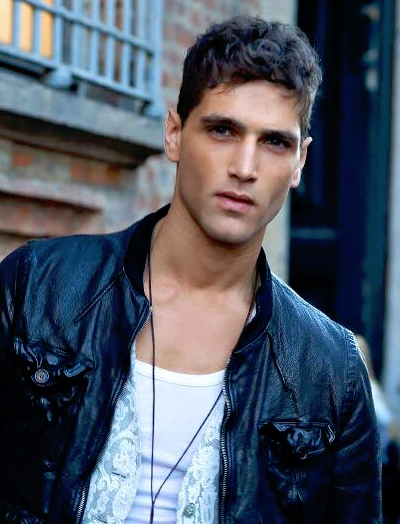 Right after the Armani Show